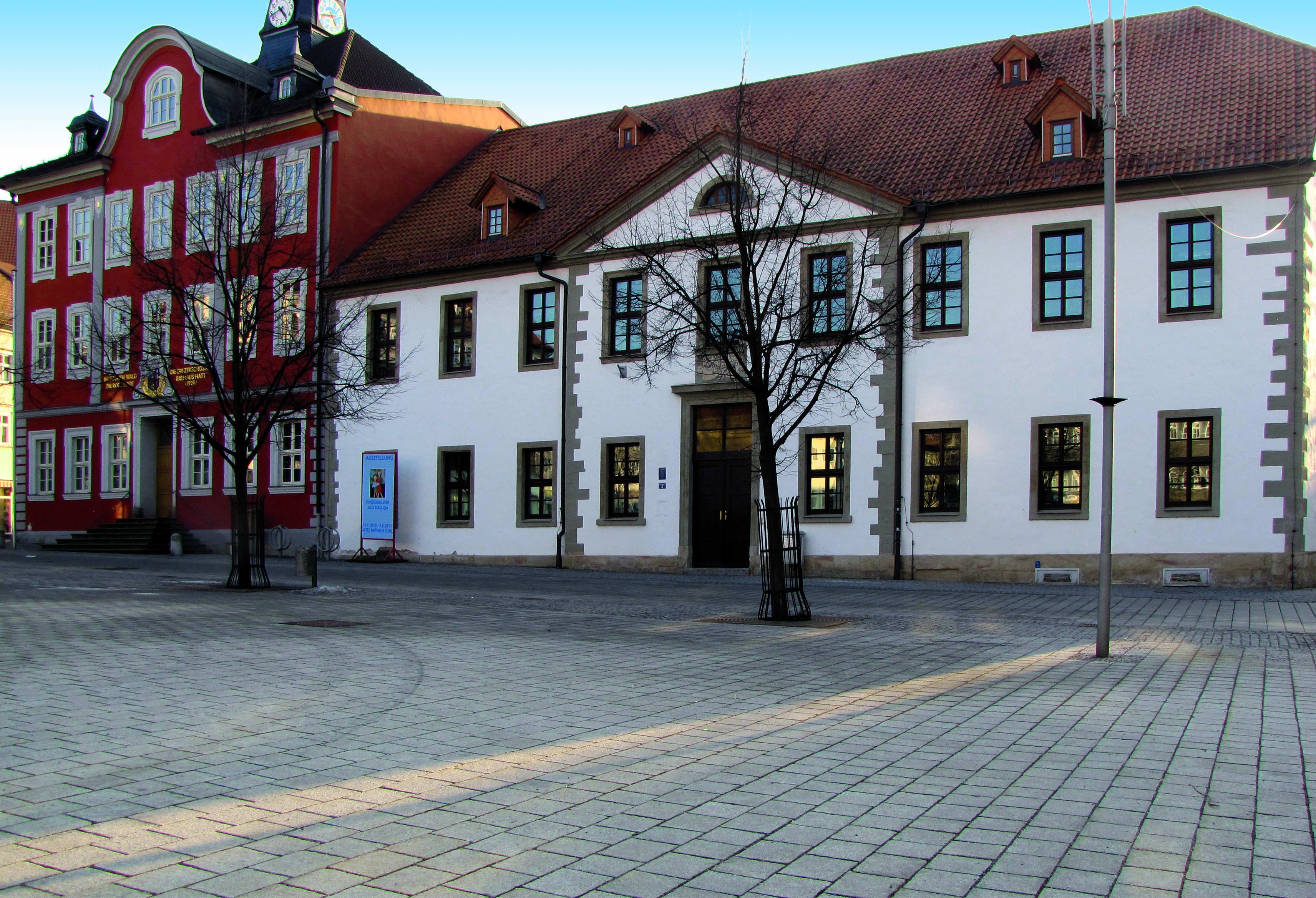 Suhler Amtshaus